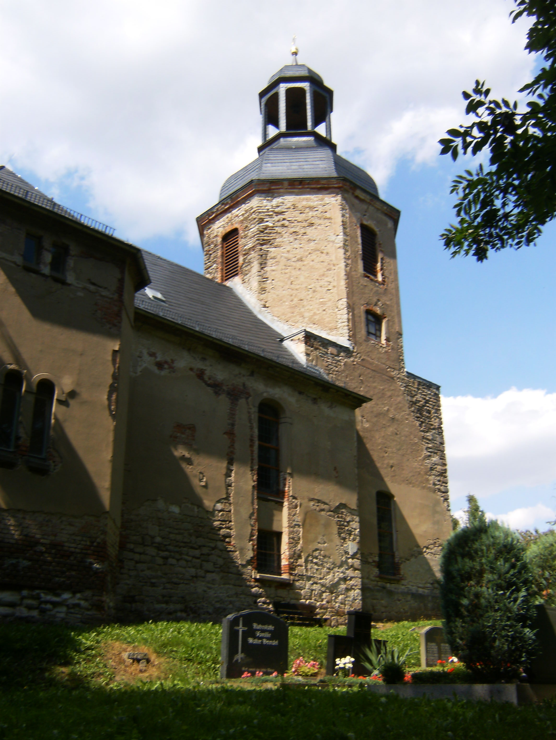 Gera Roben, village church.